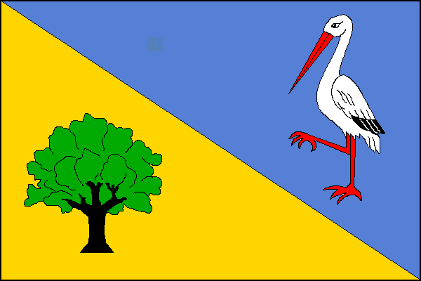 Municipal flag of Dobřenice village, Hradec Králové District, Czech Republic.